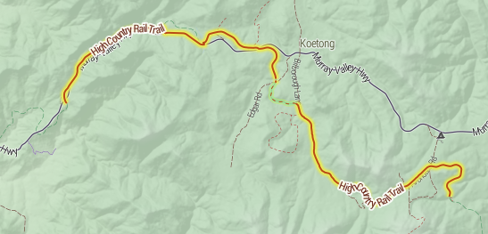 Map of eastern section of High Country Rail Trail:, around Koetong. Cartography by Steve Bennett, data by OpenStreetMap contributors.